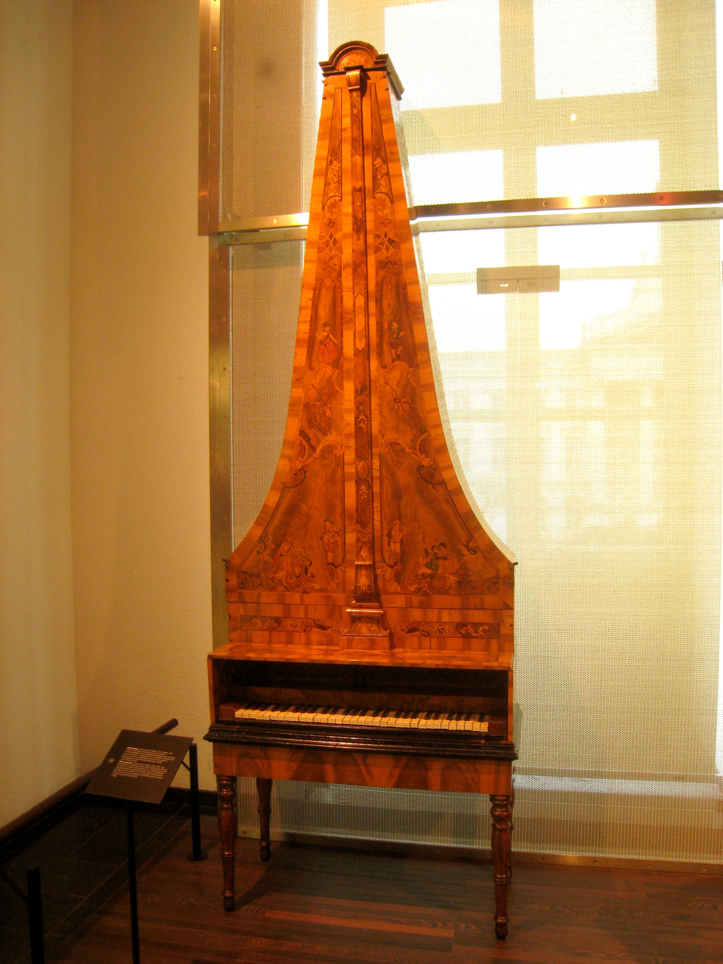 Piano collection in the Musical Instrument Museum, Brussels, Belgium. Christian Ernst Friderici, Gera, Saxony, 1745.